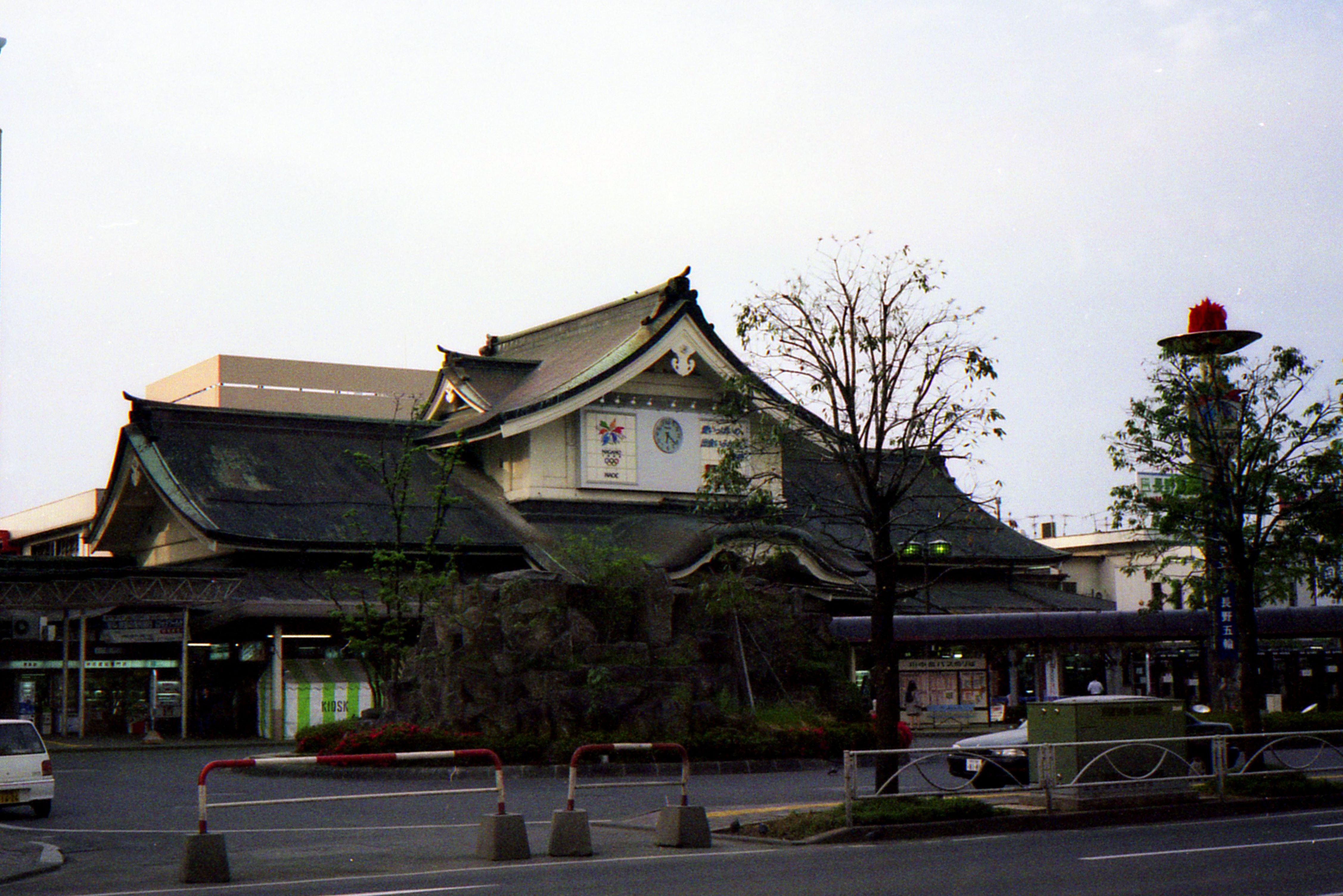 Nagano Station on JR East Shinetsu Line Old Station